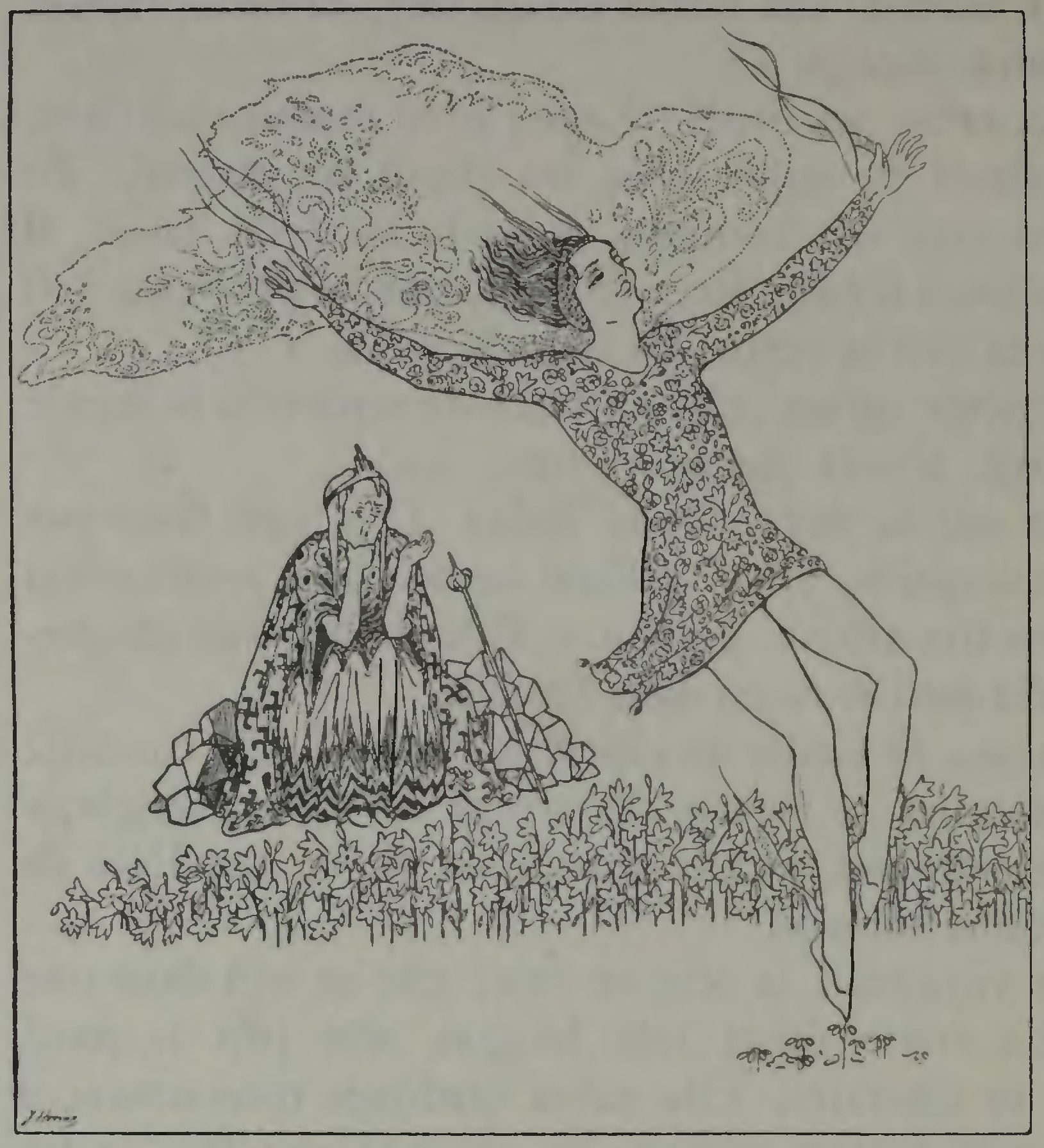 uploaded for Wikisource